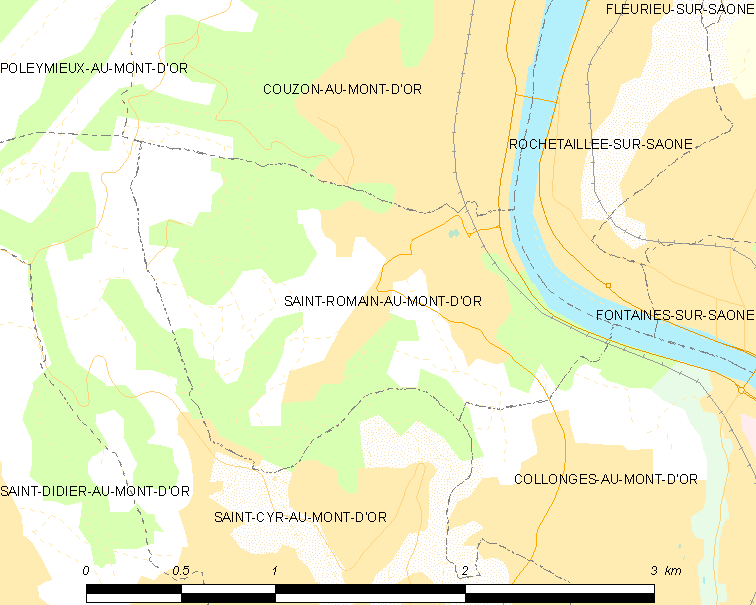 Map of French municipality